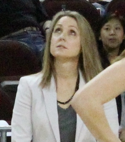 USC women's basketball assistant coach Laura Beeman in 2011.